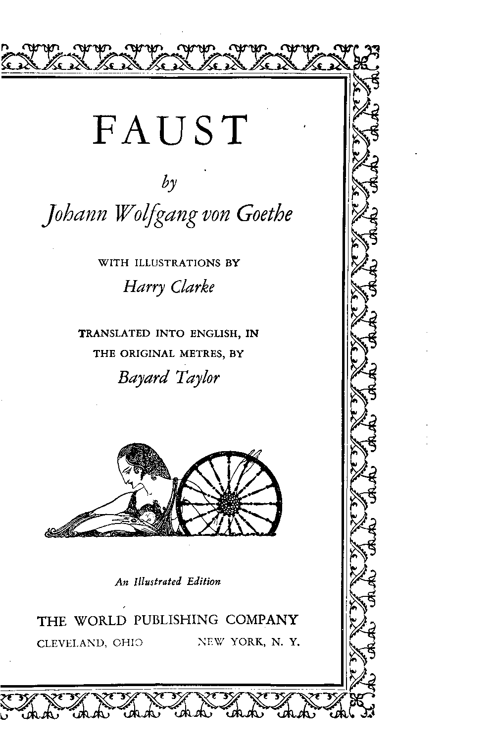 Page 005 of von Goethe's Faust, translated by Bayard Taylor and illustrated by Harry Clarke.